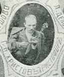 Portrait of IMARO member Georgi Pophristov from Karstoar